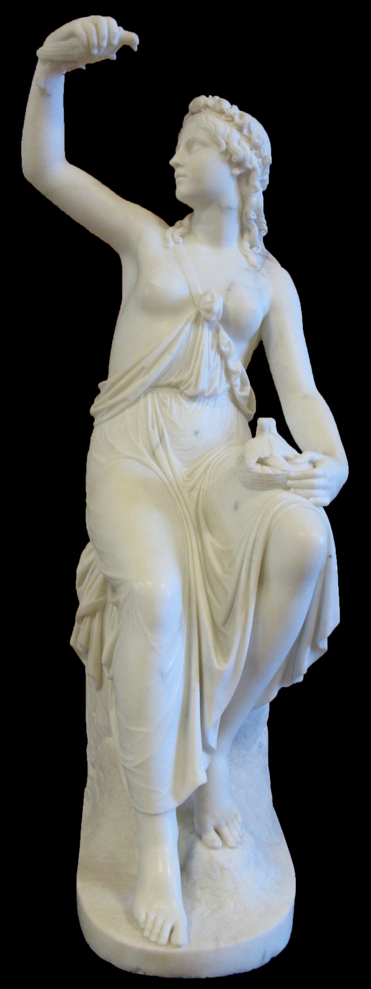 Girl with pigeons (Innocence), 1820